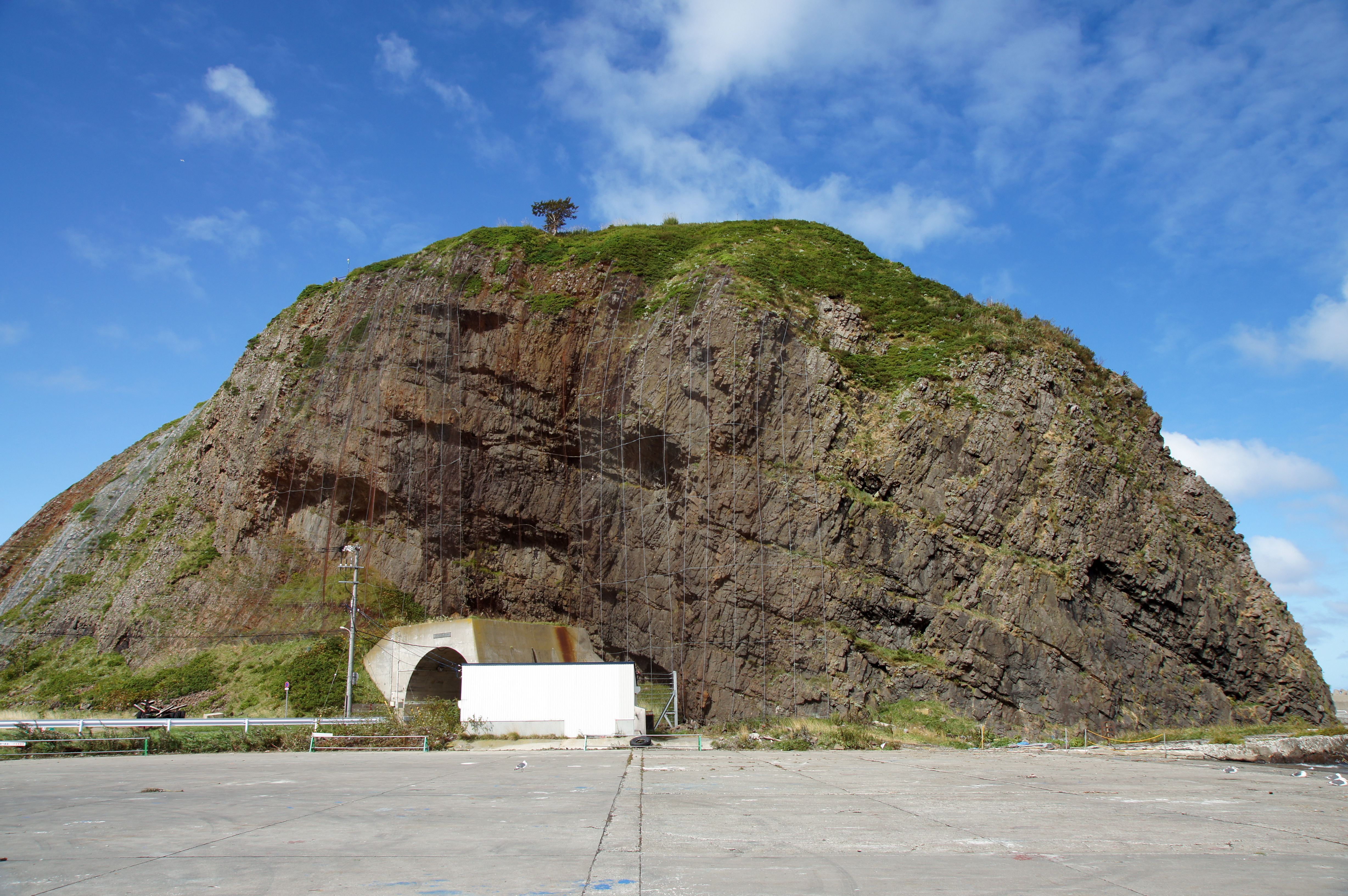 Oronko_Rock in Shari, Hokkaido prefecture, Japan